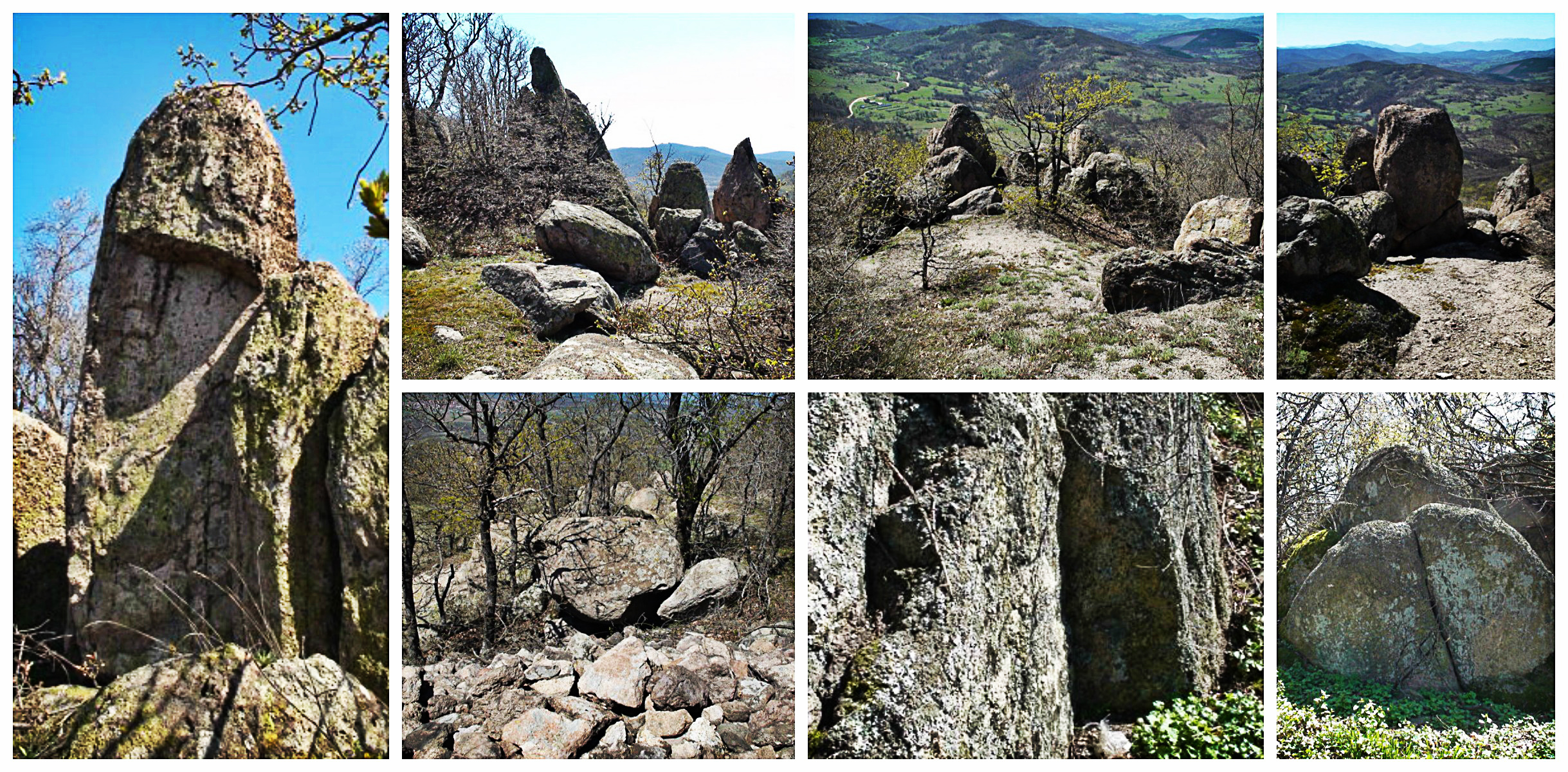 Golyamo Gradishte Bryastovo BG